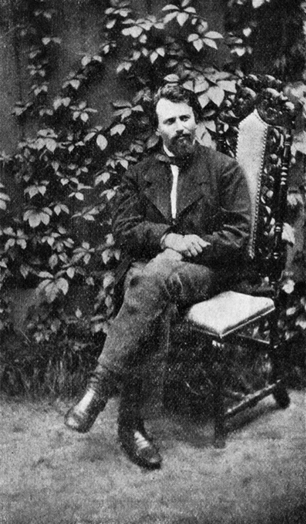 Emanuel Purkyně (1831-1882) was a Czech meteorologist a botanist, son of Jan Evangelista Purkyně.